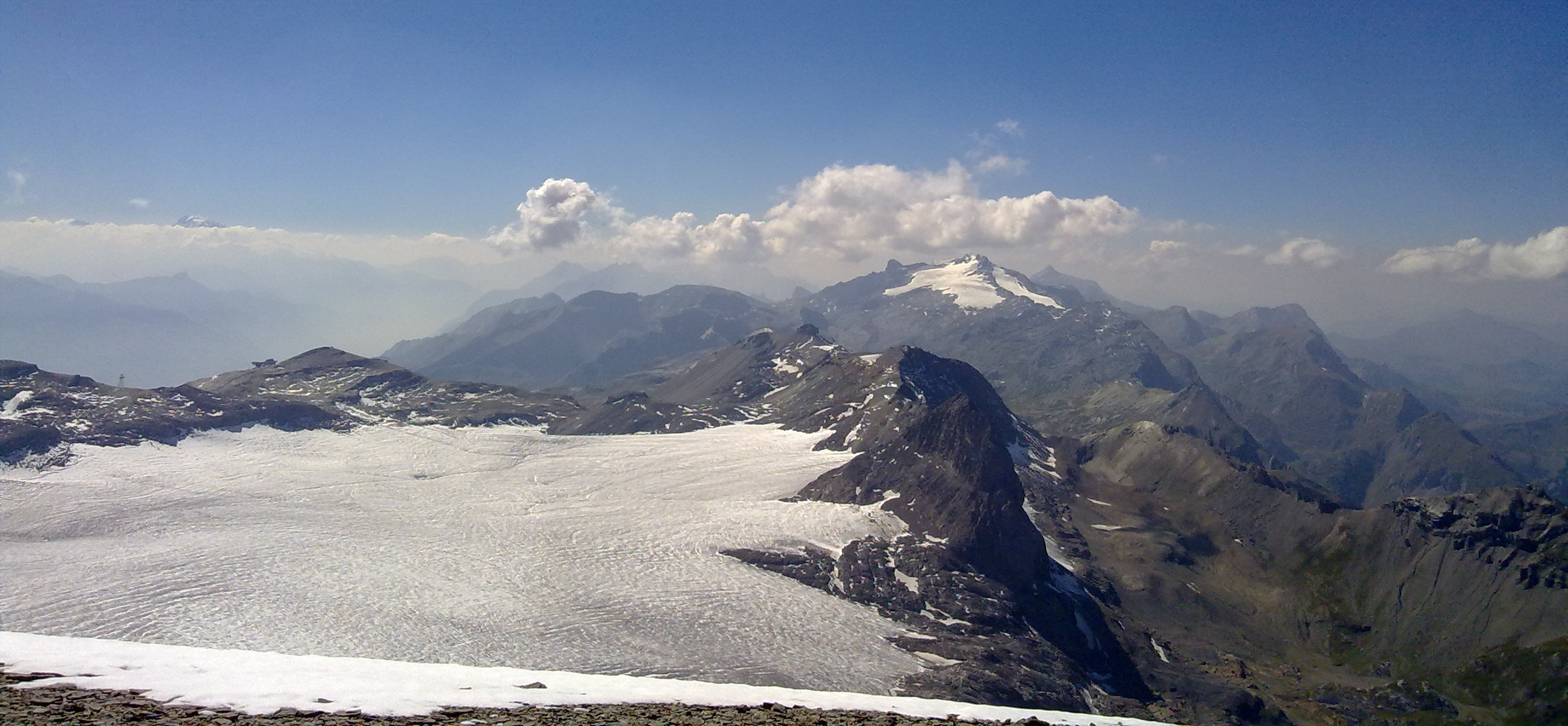 View from the (southern) summit of the Wildstrubel, towards west